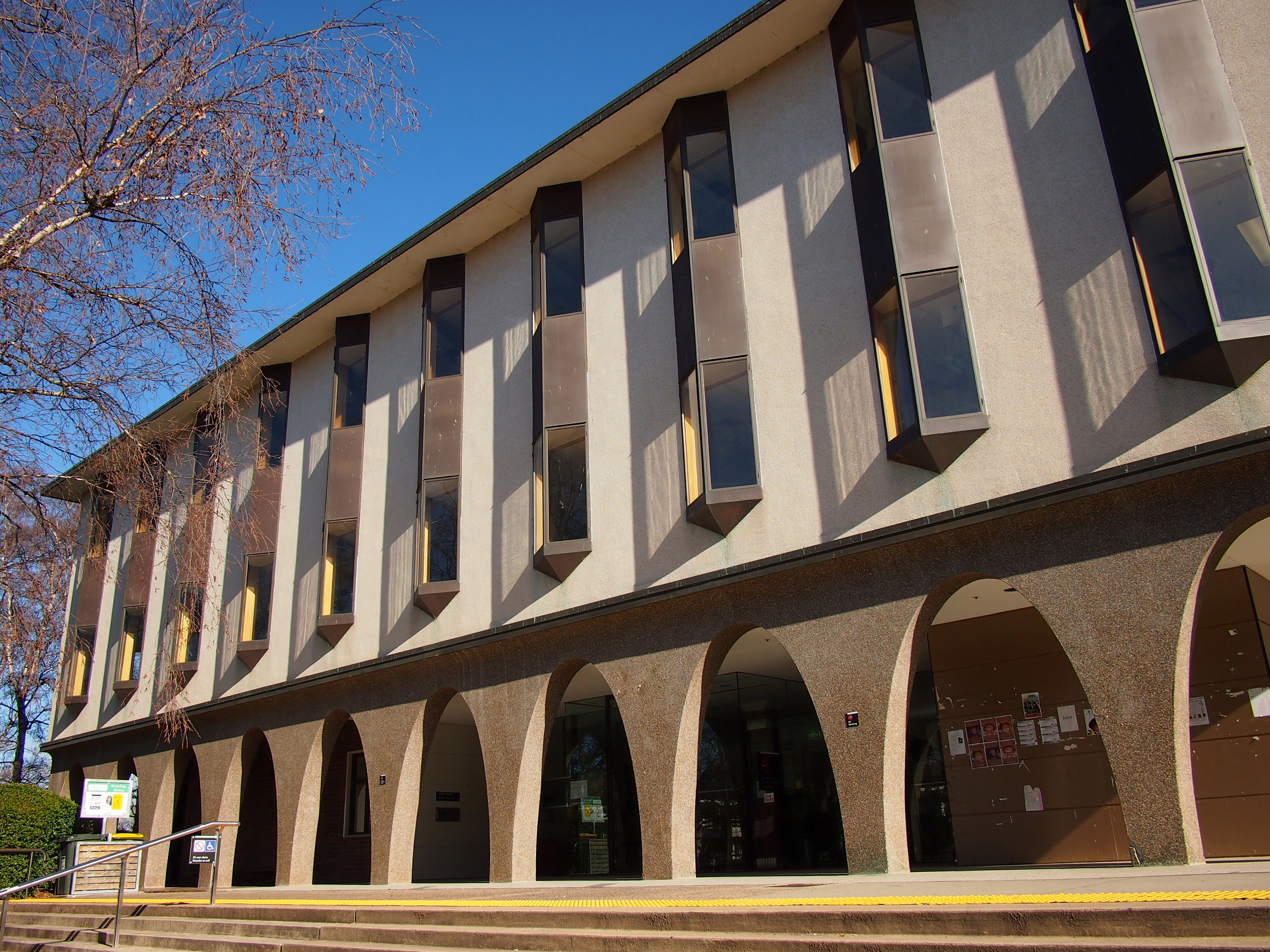 The East face and entrance of of the Chifley Library